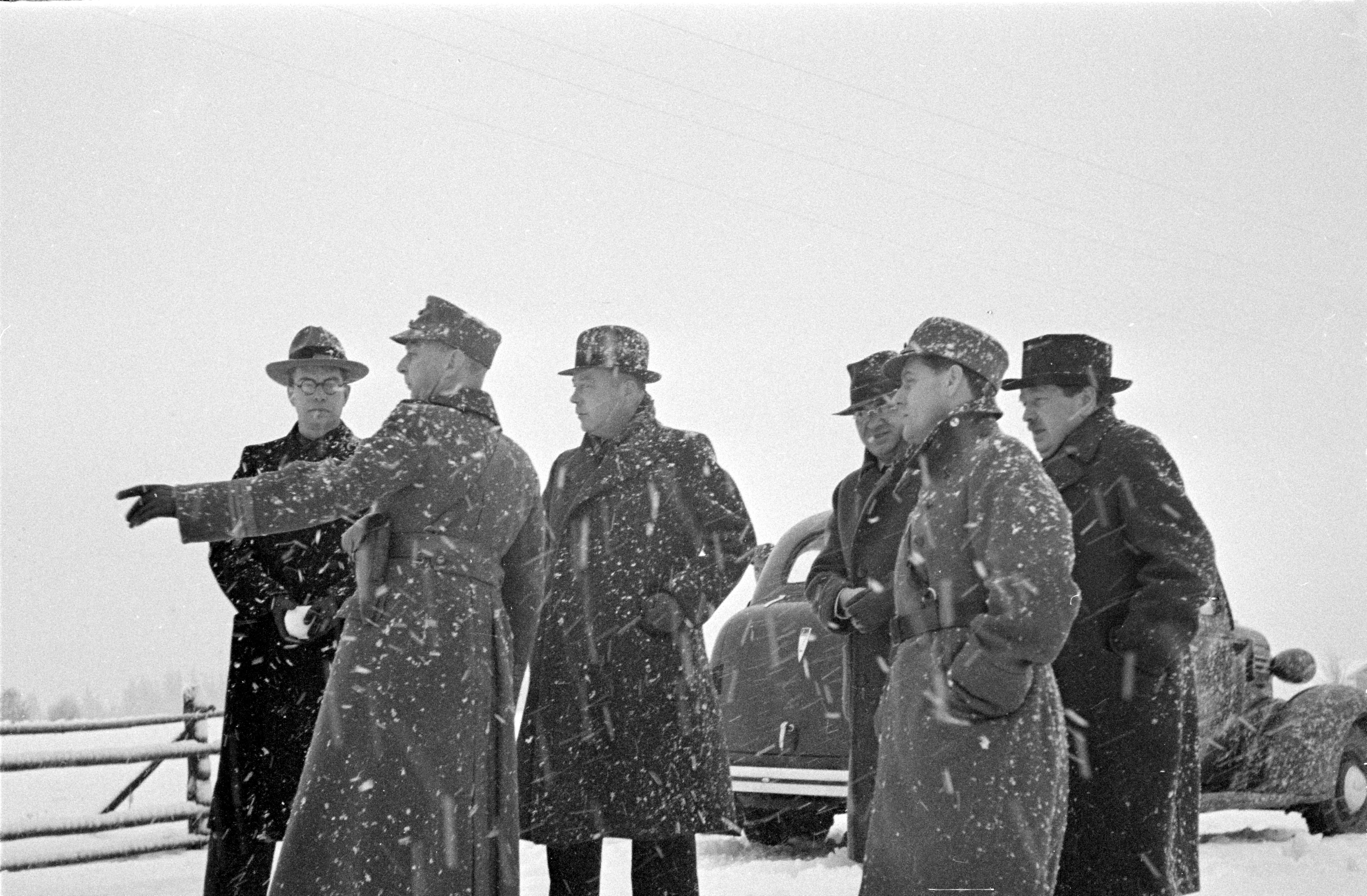 Foreign press at Mainila, where a border incident between Finland and the Soviet Union escalated into war